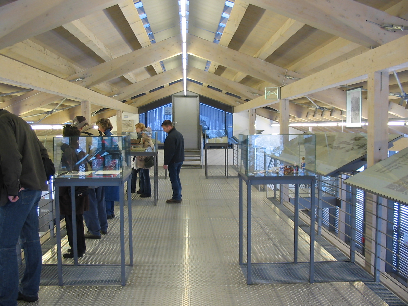 Berchtesgaden, inside the Obersalzberg Documentation Center, upper level. At the far end is a videoroom featuring interviews of Berchtesgaden residents.